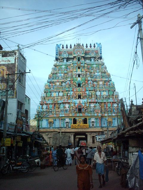 Author:Balaji viswanathan